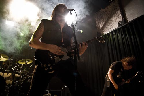 Nachtmystium, live at Hole In The Sky, Bergen Metal Fest 2007